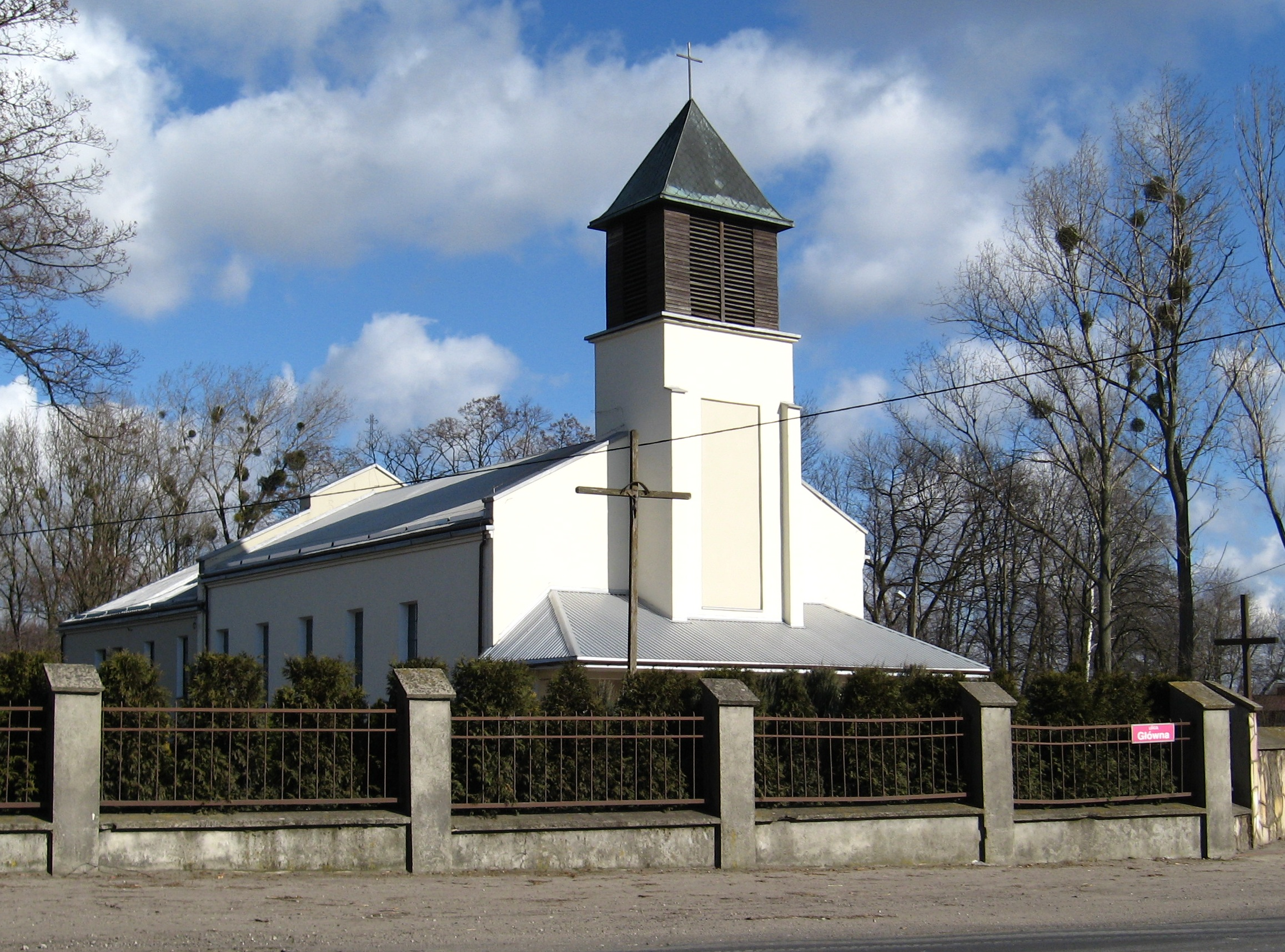 Church in Wola Rakowa, Poland. - OpenStreetMap(Info)